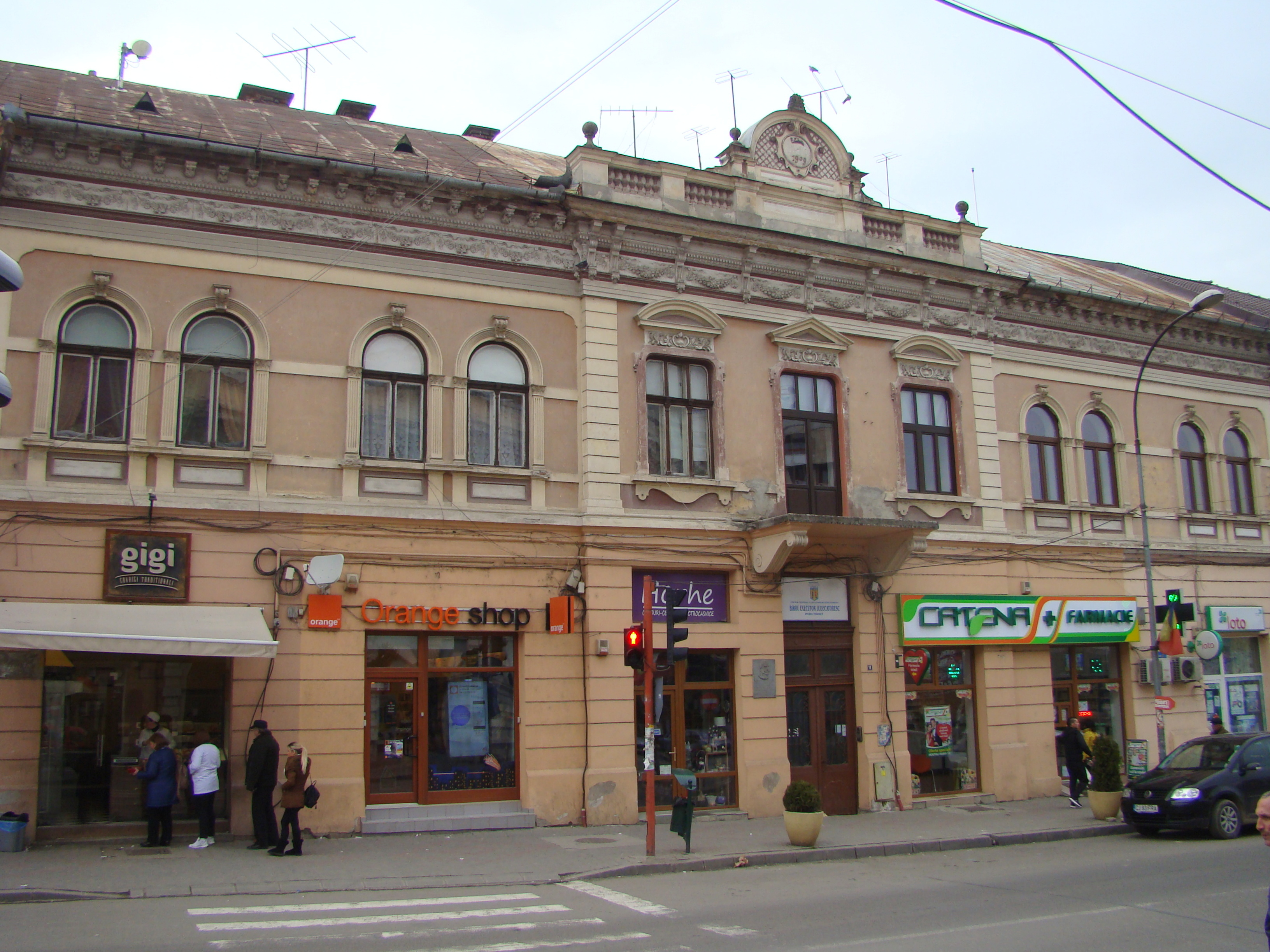 House, historic monument in Dej, Bobâlna Square, number 11